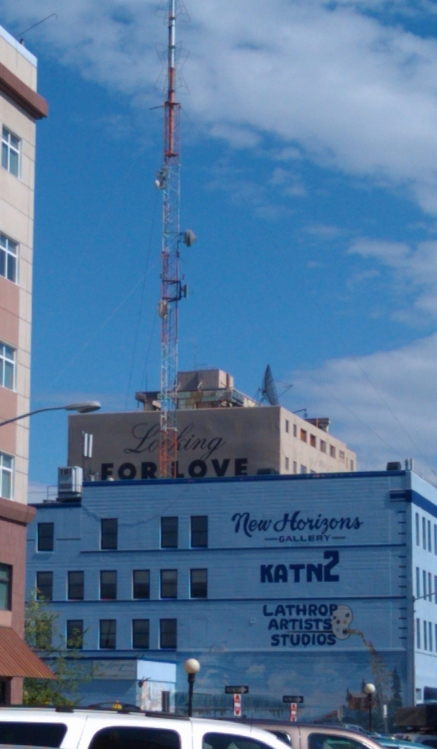 The Lathrop Building at 516 Second Avenue in downtown Fairbanks, Alaska. Constructed in 1936 by Austin Eugene "Cap" Lathrop to house various of his business enterprises, including the Fairbanks Daily News-Miner. Owned for many years by Jim Whitaker, the building is currently home to the offices, studios, transmitter and tower of KATN, the ABC affiliate television station in Fairbanks, as well as a variety of smaller businesses. The Spring Hill Suite hotel is seen on the photo's left edge. The abandoned Polaris Building is seen behind.